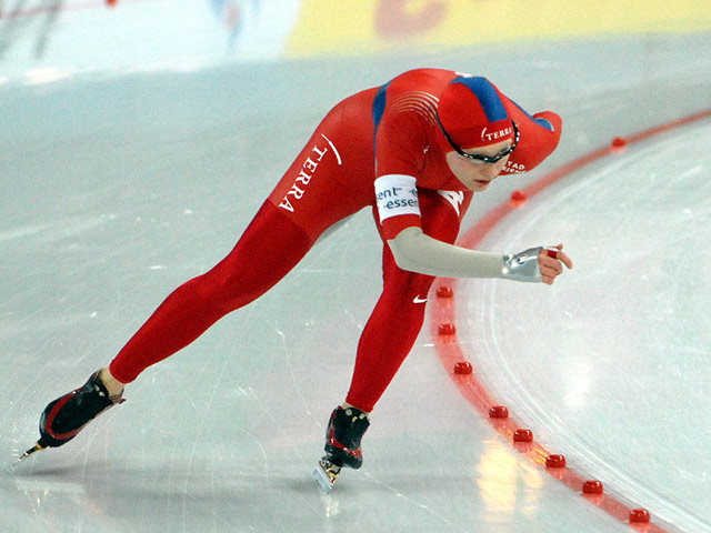 Mari Hemmer at the 2008 World Cup in Hamar.